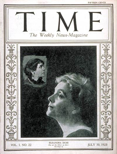 TIME Magazine Cover Featuring Eleanora Duse (30 Jul 1923)